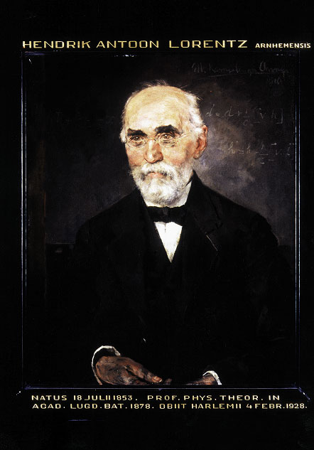 Painting of Hendrik Lorentz by Menso Kamerlingh Onnes